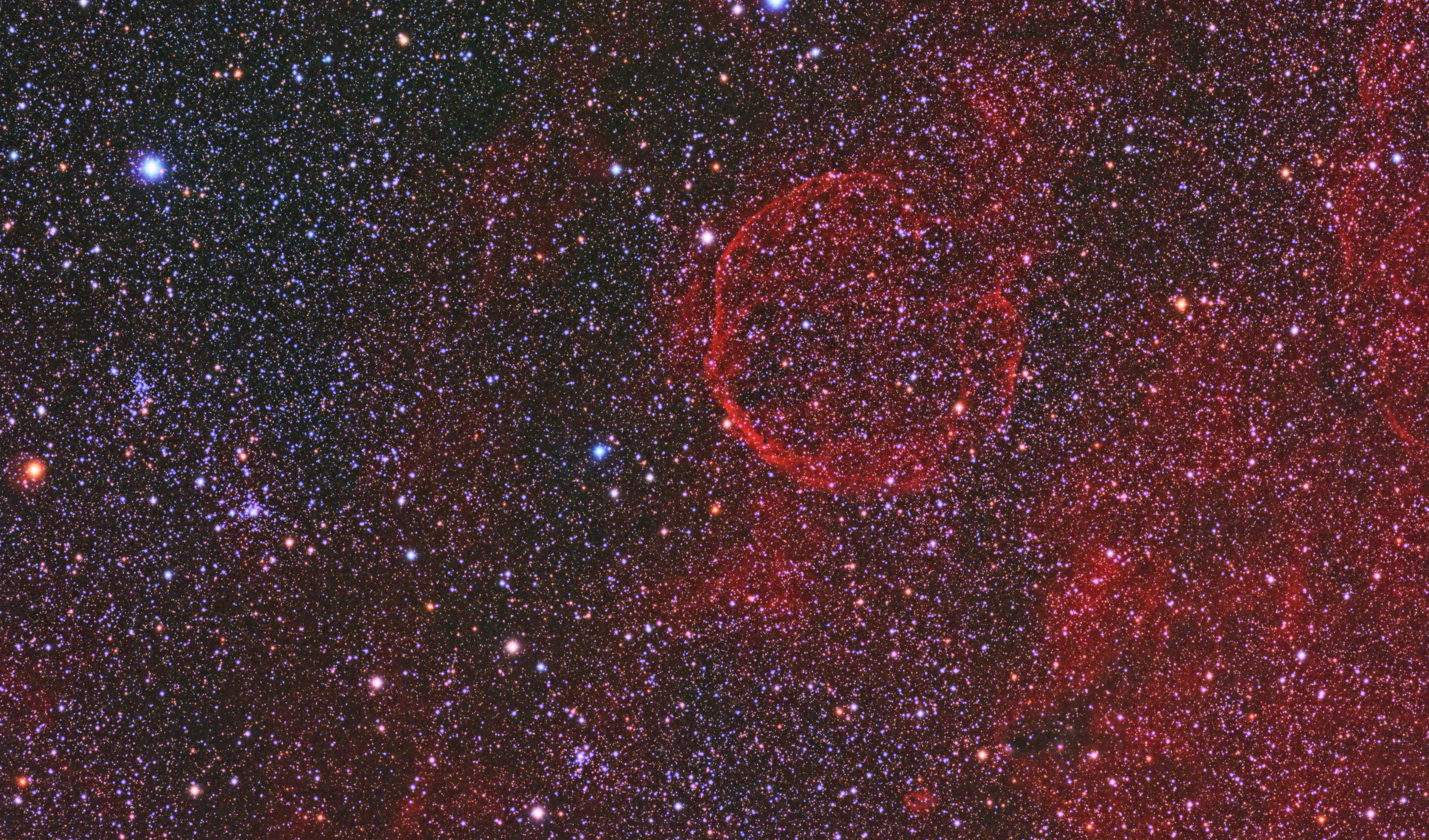 CTB1 Supernova remnant in Cassiopeia This is an extremely faint but rewarding target. For this image I used 12 hours of H alpha data (73x600 sec) and 2 hours RGB data (in 120 second subs) Esprit 100 f5.5 APO triplet/ QHY16200 @ -20C. Acquisition dates: 25,26,27,28 en 29 september 2017.